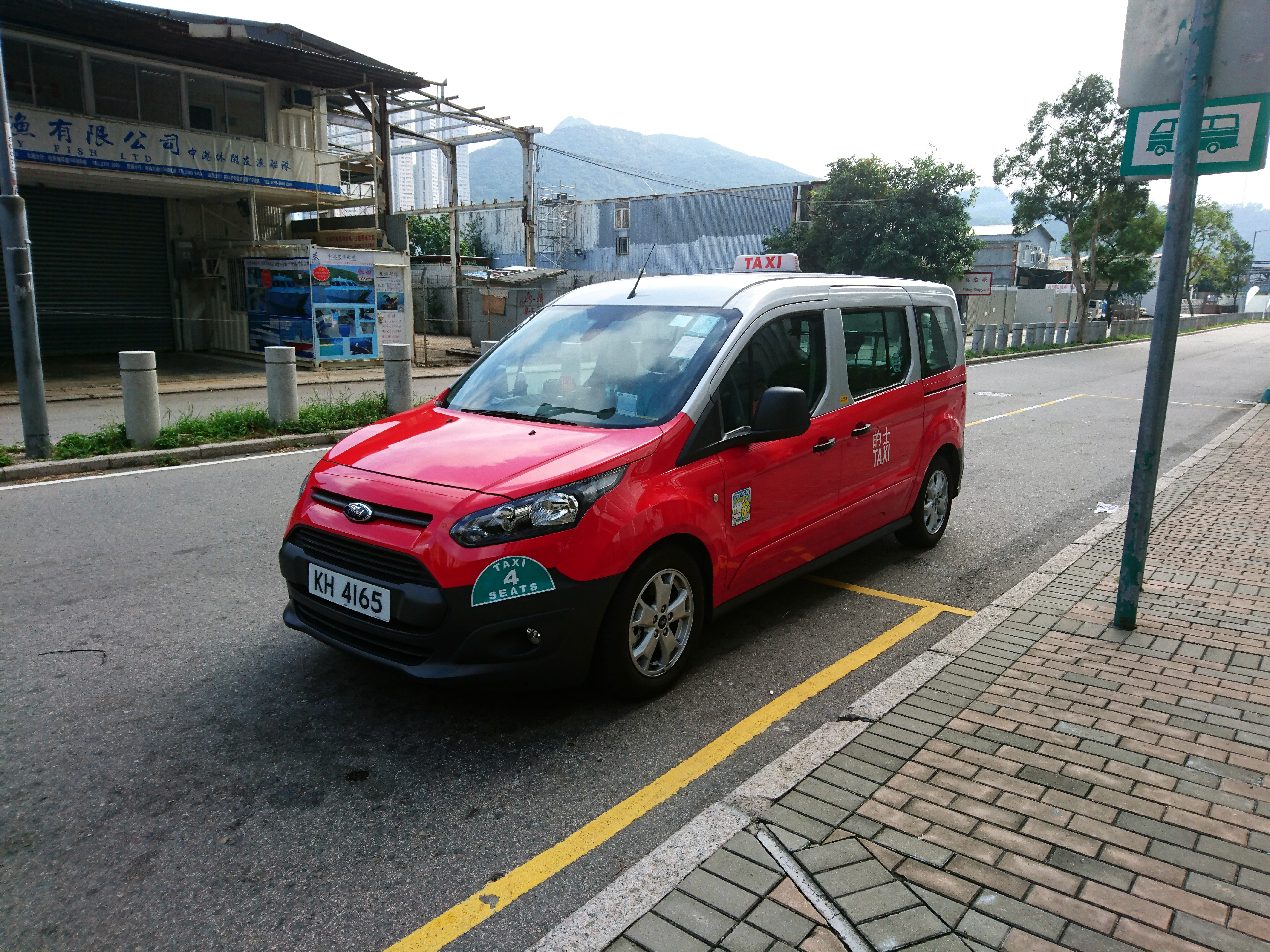 Ford Taxi in Hong Kong